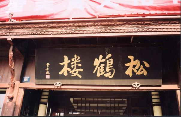 七里山塘松鹤楼; Pine & Crane Restaurant in Shantang town